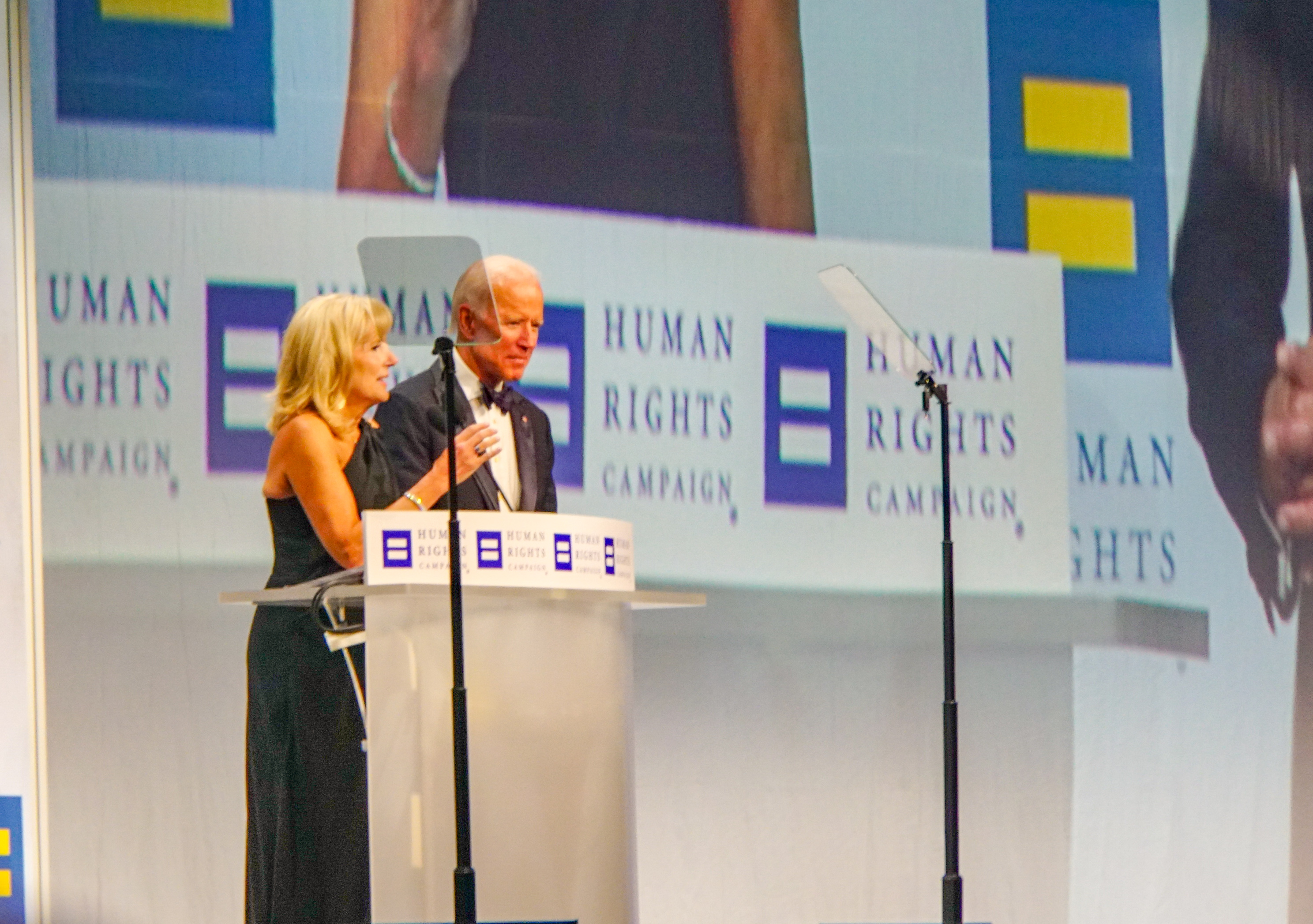 Joe Biden and Jill Biden at the Human Rights Campaign National Dinner, Washington, DC USA, September 15, 2018